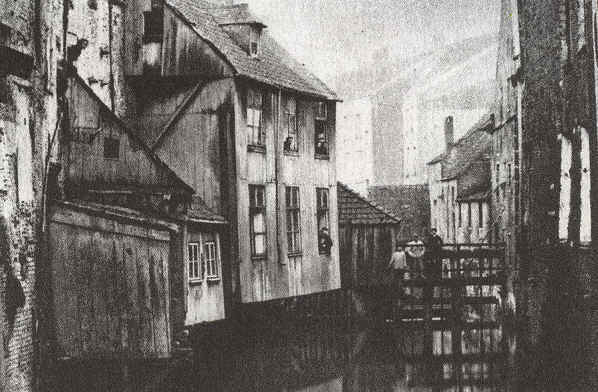 Buildings on the Senne (Zenne) river in Brussels before it was covered over. Many unsanitary and unsafe wooden add-ons projected over the river in the lower town.